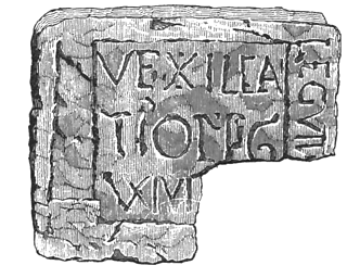 Building inscription of the Sixth Legion, found before 1873 in Netherby/Castra Exploratorum (GB).